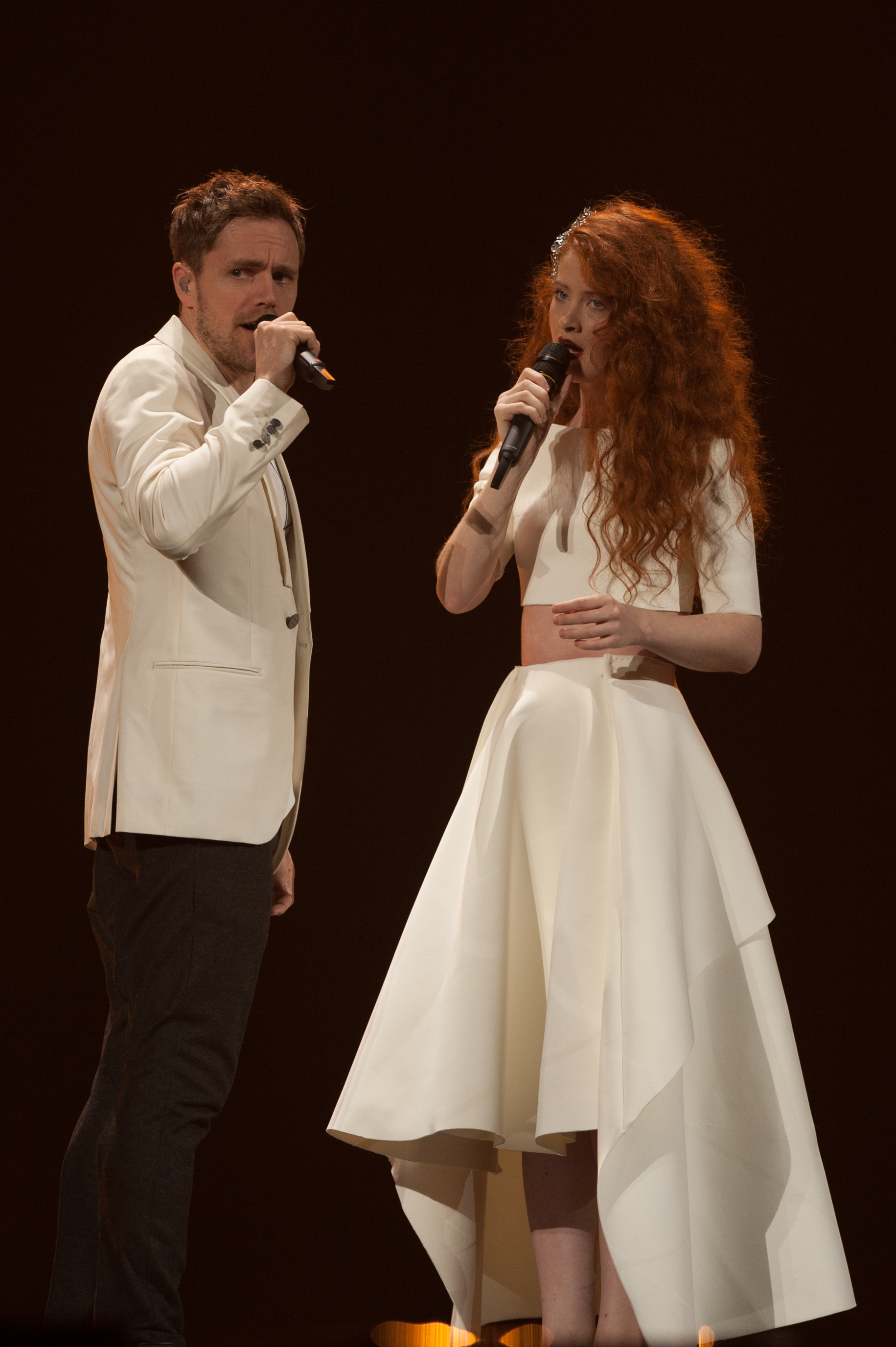 Eurovision Song Contest Vienna 2015: Mørland & Debrah Scarlett